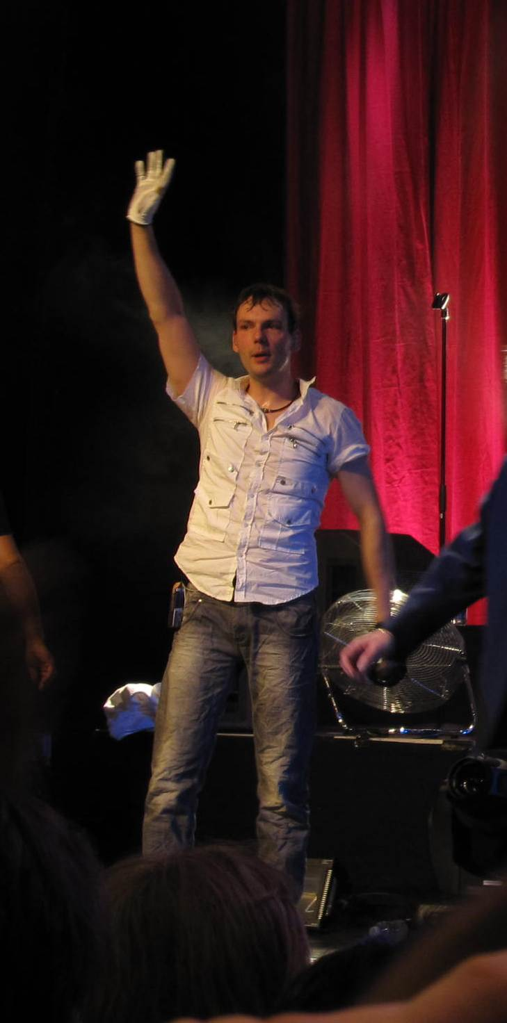 Felix Bohnke after the show with Avantasia in Stockholm on 2010-12-05